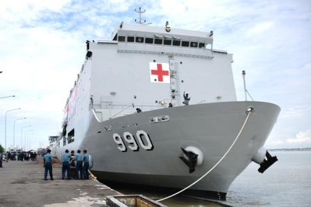 KRI Dr. Soeharso of the Indonesian Navy